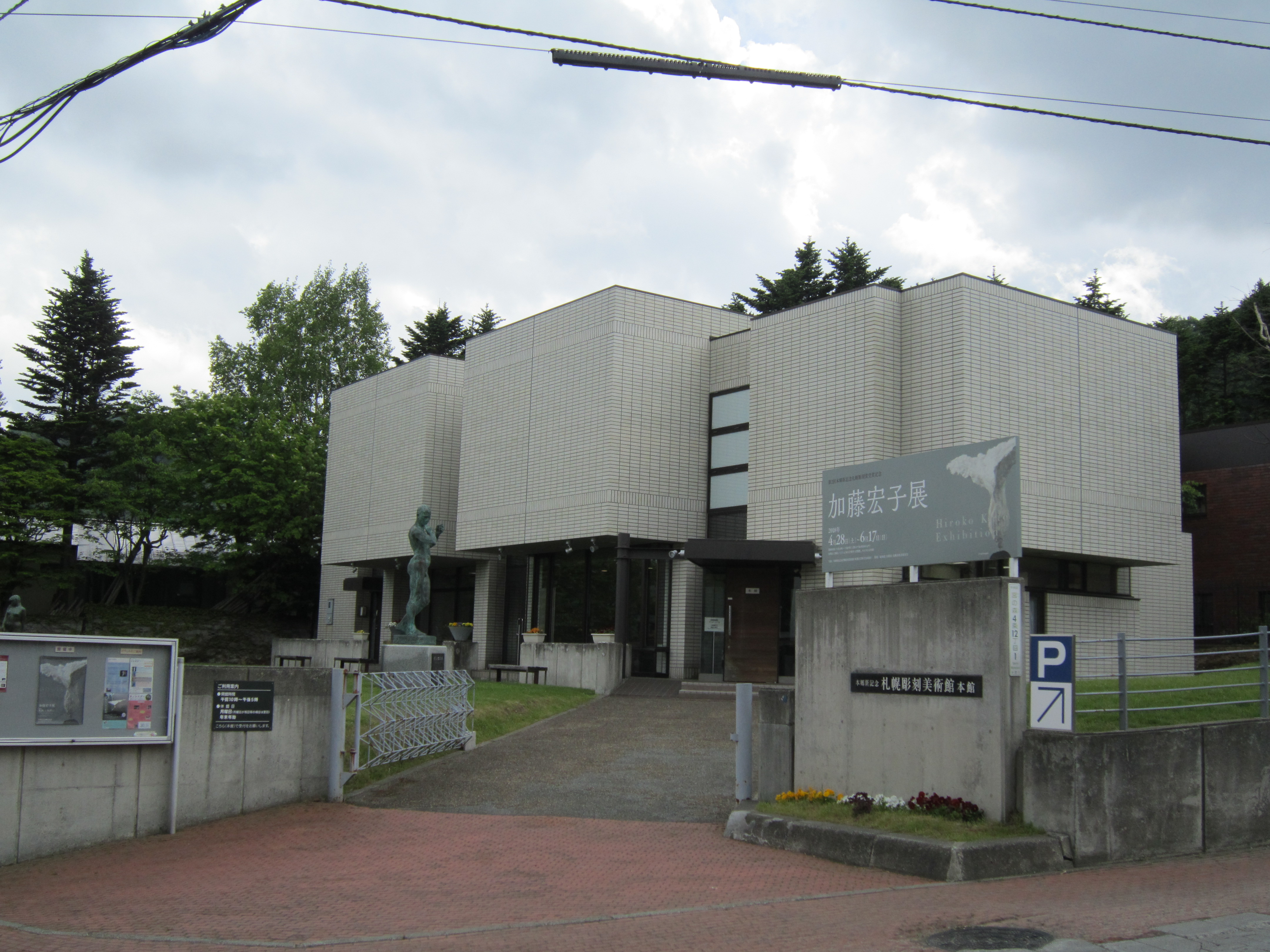 Hongo Shin Memorial Museum of Sculpture, Sapporo; Main Hall